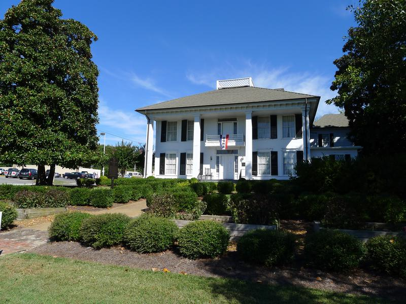 Marsh-Warthen House, 308 North Main Street, La Fayette, GA 30728